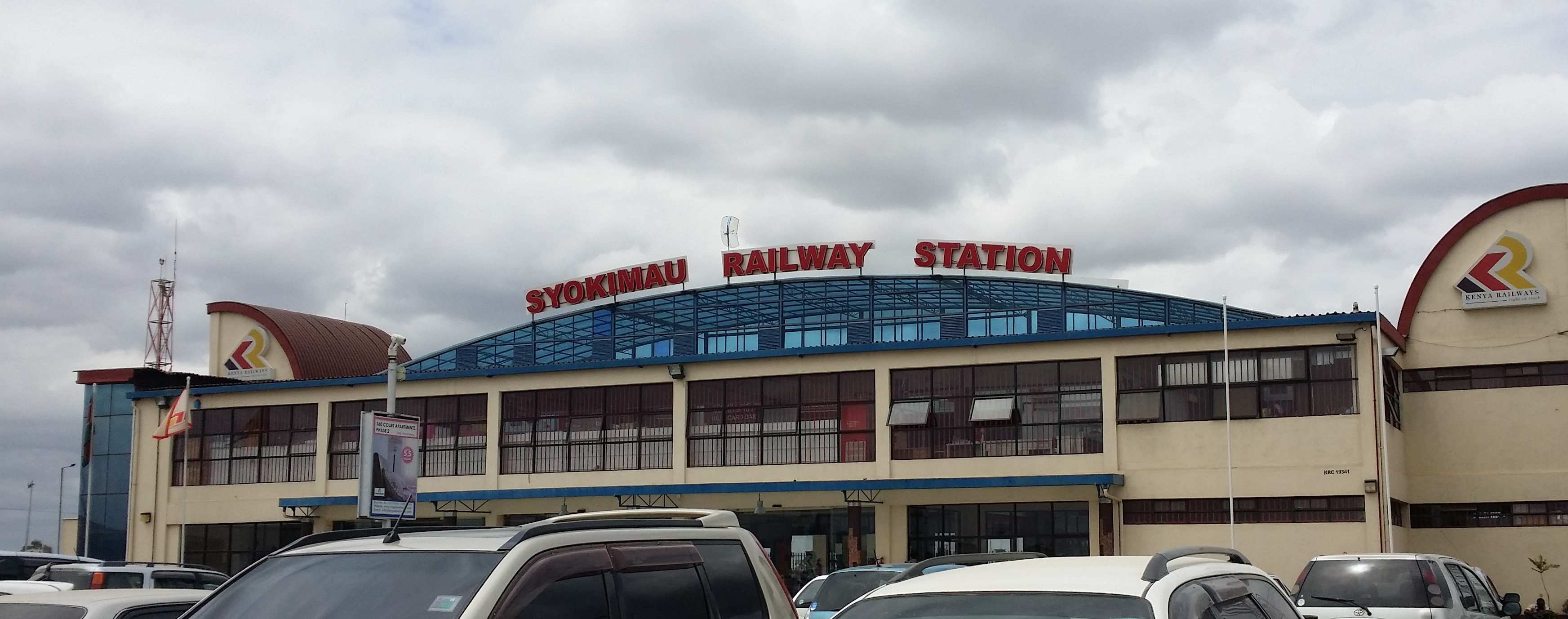 Syokimau Railway StationKiswahili: Stesheni ya Reli ya Syokimau